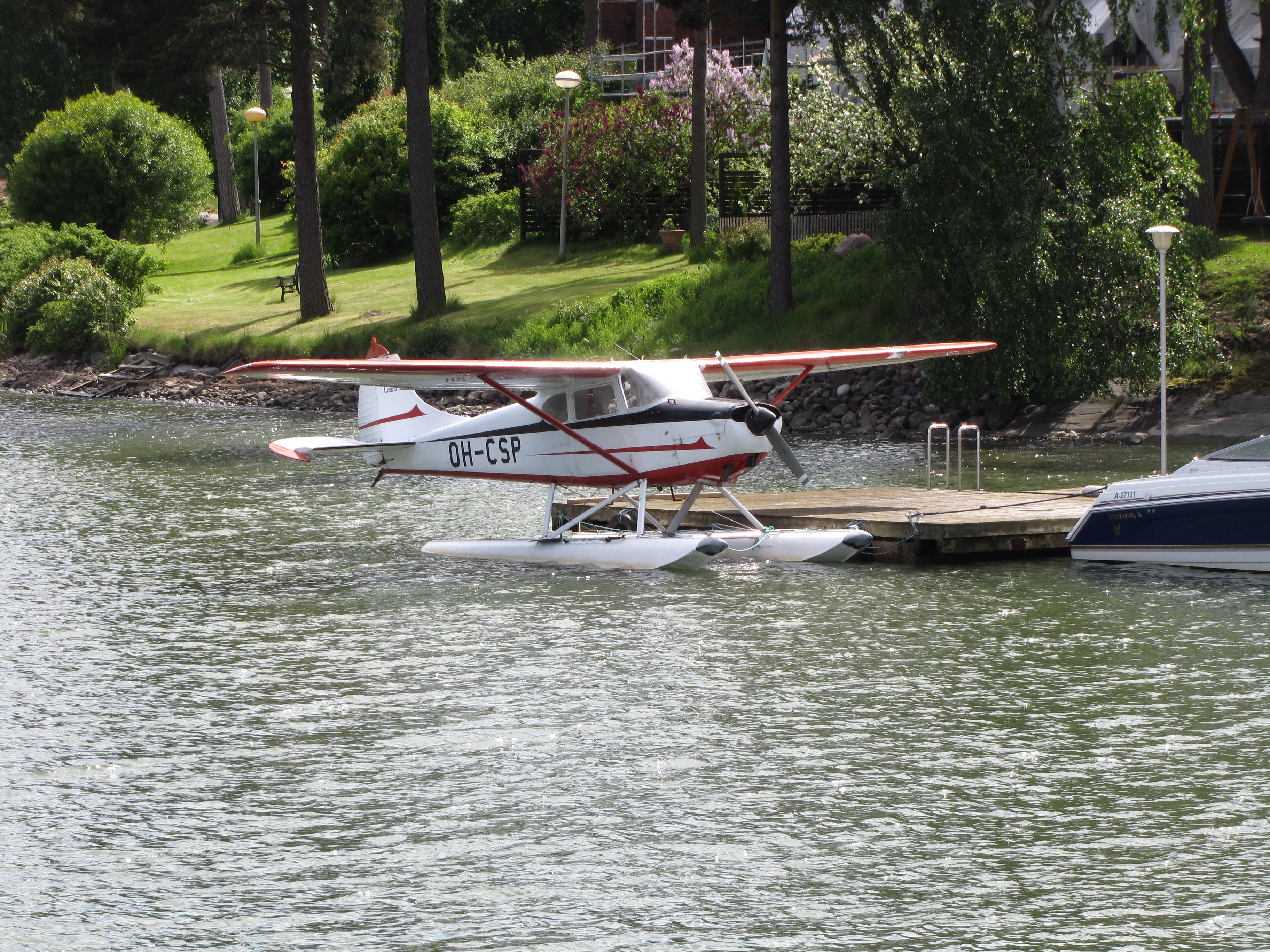 Cessna 170B equipped with floats in Yliskylä.